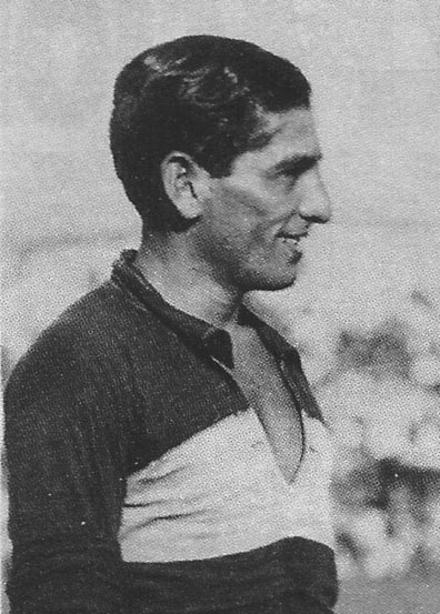 Photo of Benitez Caceres durent his run on Boca Juniors.